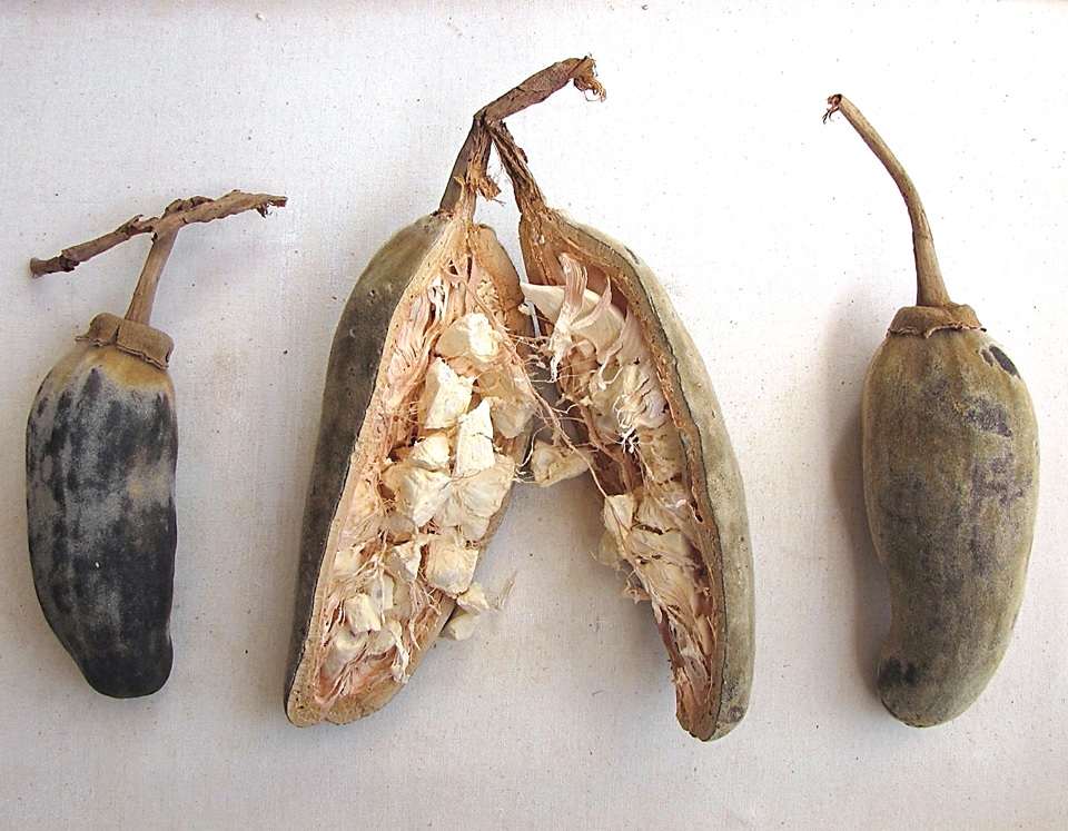 Three examples, with one split in half, of typical mature fruits of the Adansonia digitata baobab tree. Somewhat lightweight for their size, the skin is now very hard. The greenish outer covering which gives the fruits a velvety appearance, (but is somewhat irritating to the skin, so the fruits are typically handled only by their stems) wears off, thus the variance in colors as seen here. Unusually, the pulp inside is naturally very dry, so it can be stored as is, unlike other fruits. Called 'bouye' in Wolof, in Senegal, but names vary between languages and countries. This dry whitish opaque fruit pulp is dissolved in water to separate the pulp from the dark brown seeds that are inside it, and the fibers, then sieved to make baobab juice. High in vitamin C, it is a very tart, sour fruit; sugar is usually added to moderate the tartness. Often eaten as is as a snack; the whitish dry pulp chunks are picked out and dissolved in the mouth, the seeds discarded. Scale: largest fruit shown 21 cm long with a circumference at the widest end, 28 cm. The dry skin at this stage was 1 cm in thickness and very hard. Even though they are not visible here inside the white opaque pulp, the number of seeds in this sample split open fruit was 155; seeds were approximately 1.2 cm in length.